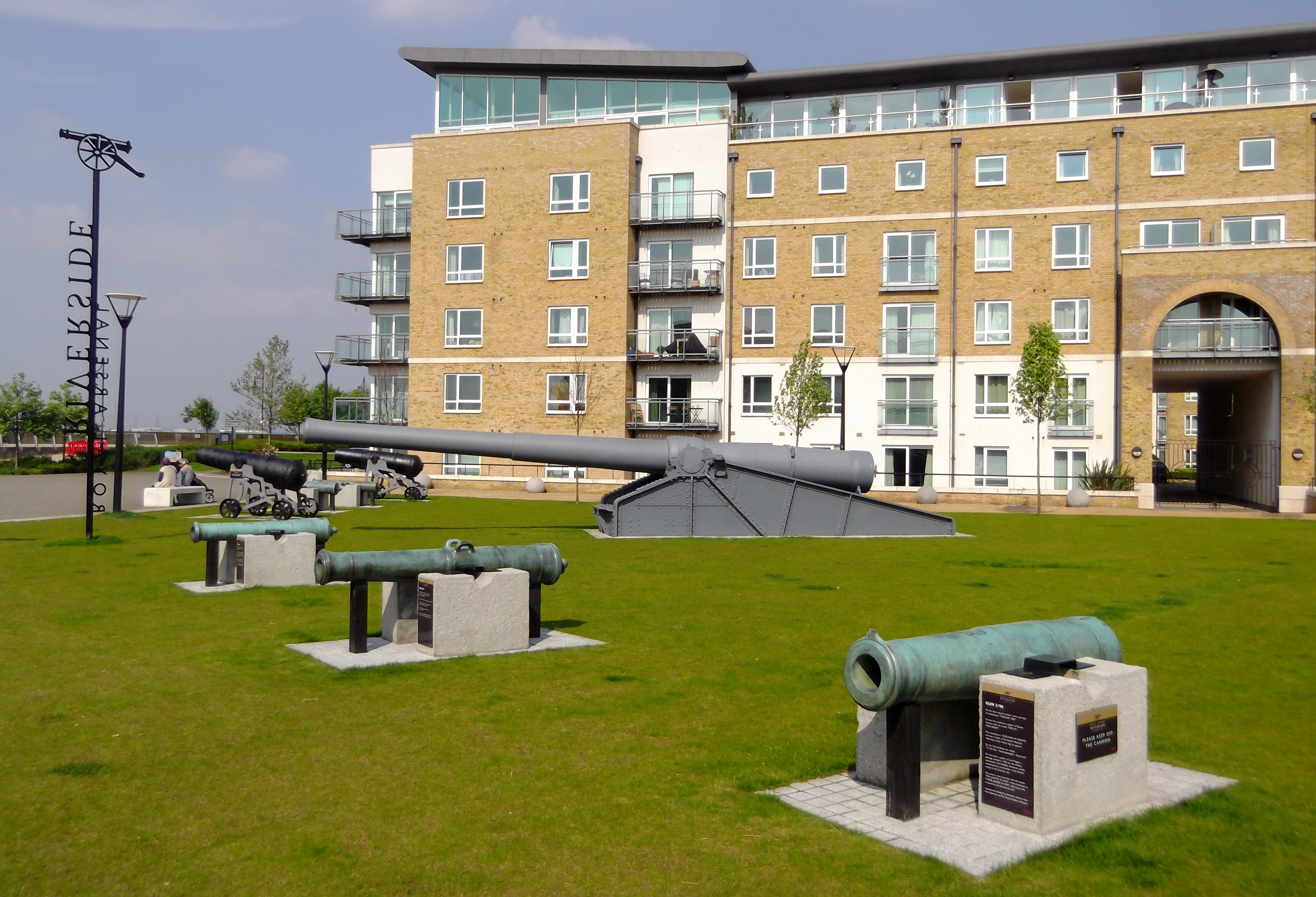 BL 9.2 inch Mk IX coast defence gun at Royal Artillery Museum Woolwich London.